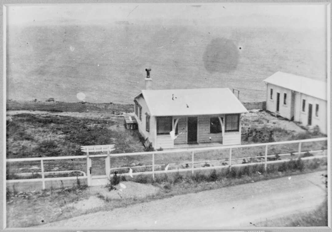 Harold Beauchamp's family beach cottage at Day's Bay — Sunshine Bay, Lower Hutt bought after Katherine Mansfield returned from school in England. Photograph circa 1910?